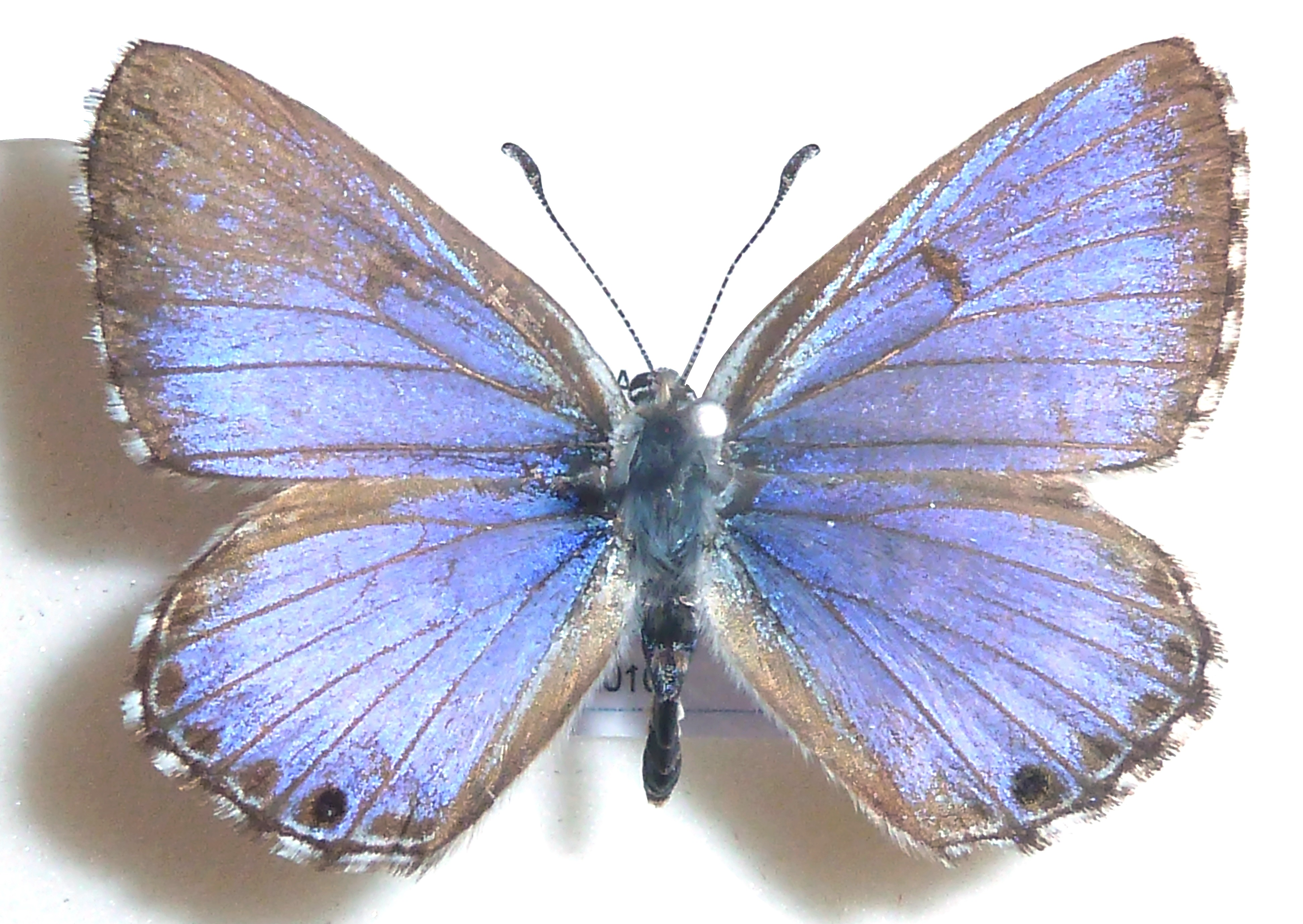 Koppie blue in the collection of J. Dobson